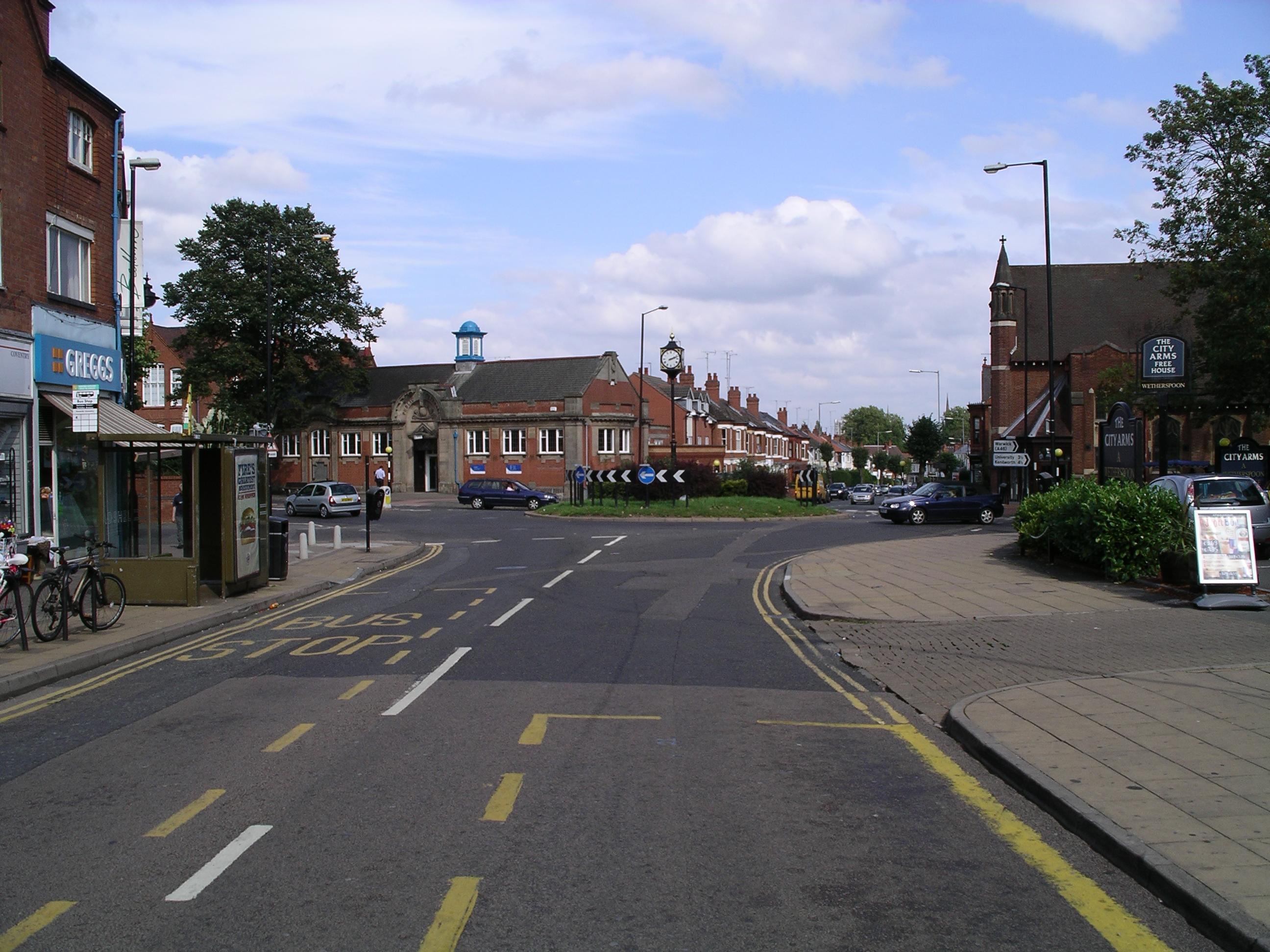 Photograph of Earlsdon, Coventry, England. Photo taken on 13 September 2006. The photo shows the road traffic island in the main road through Earlsdon, and Earlsdon Library, which has a blue structure on its roof for extra light in the library.